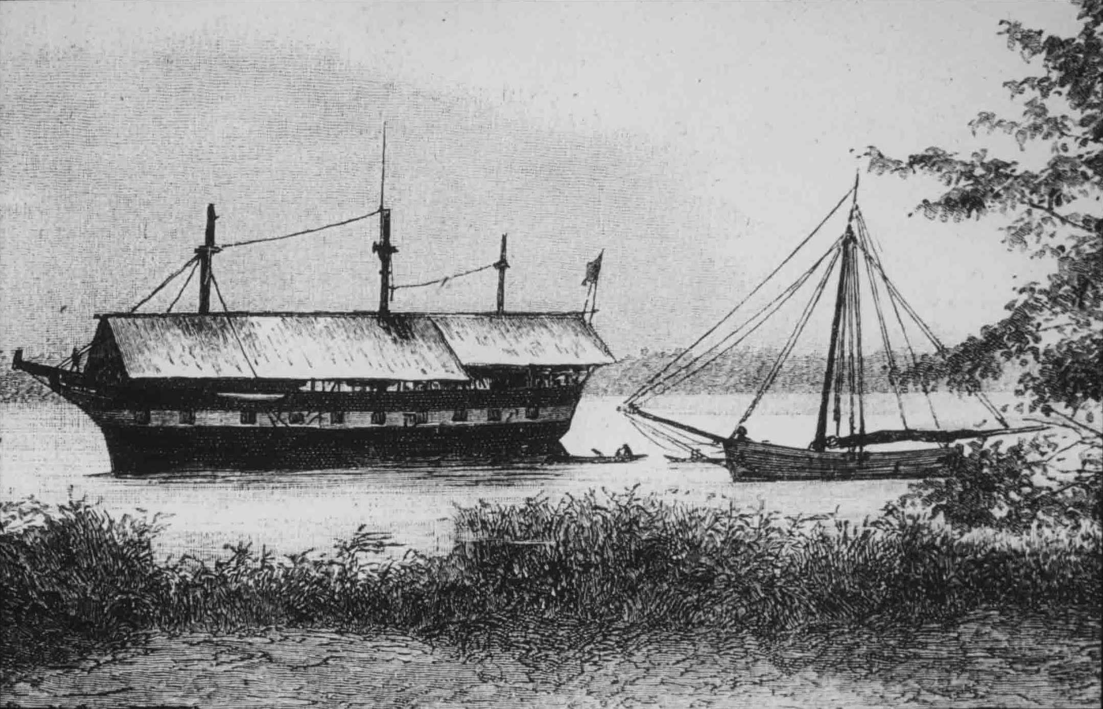 The Hulk of the company C. Woermann in Cameroon (etching, original format with margins 8,5x10 cm)